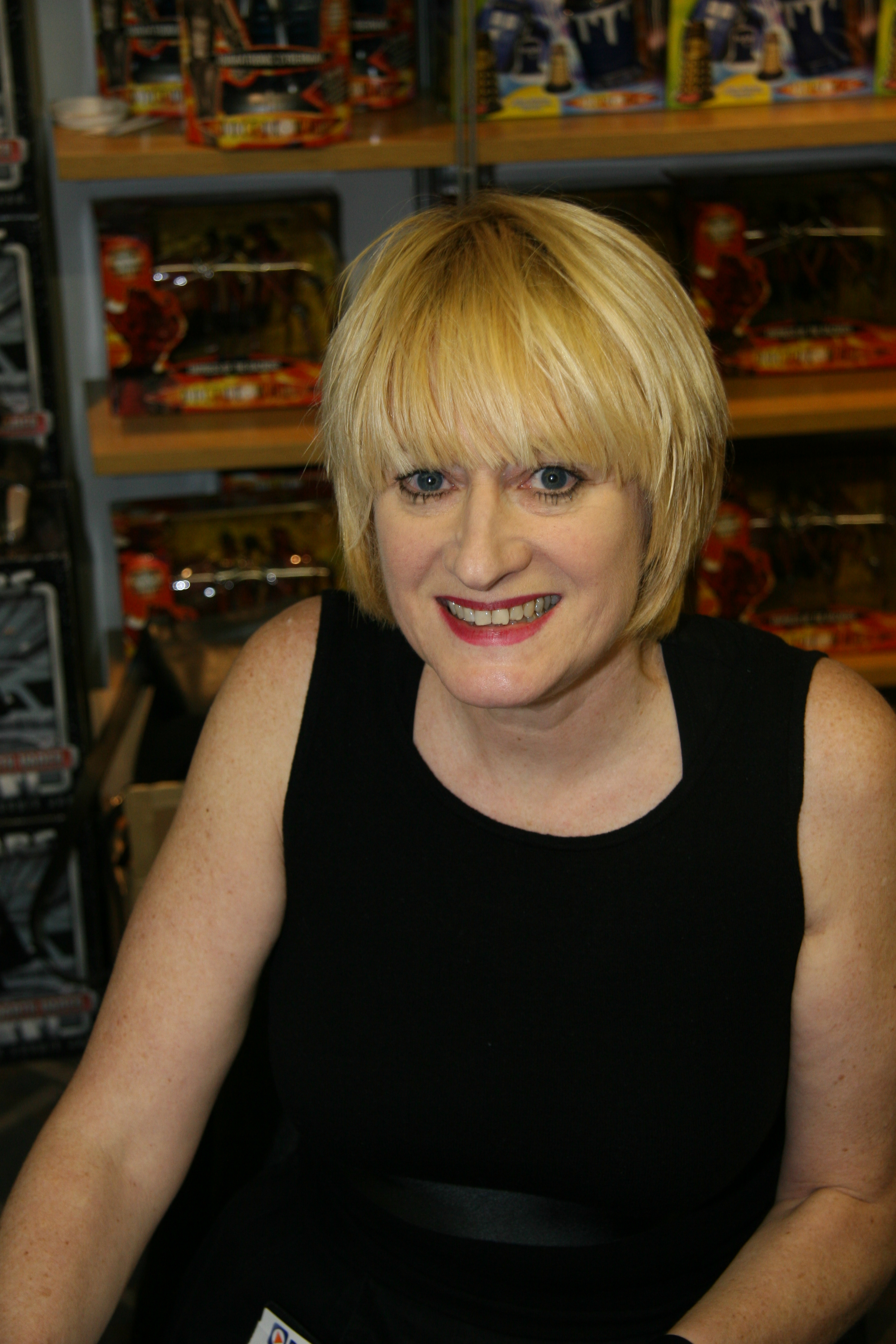 Photograph of Hattie Hayridge at Live 2008